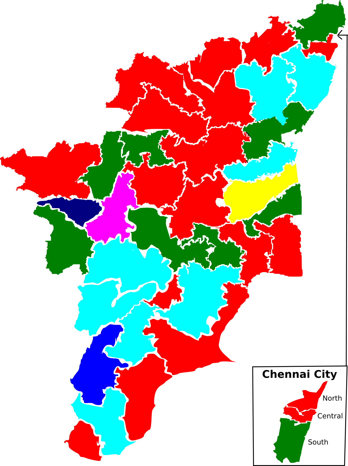 2009 Lok Sabha Election map for Tamil Nadu by parties. Map is based on ECI drawn map from Results are on published data from ECI website at